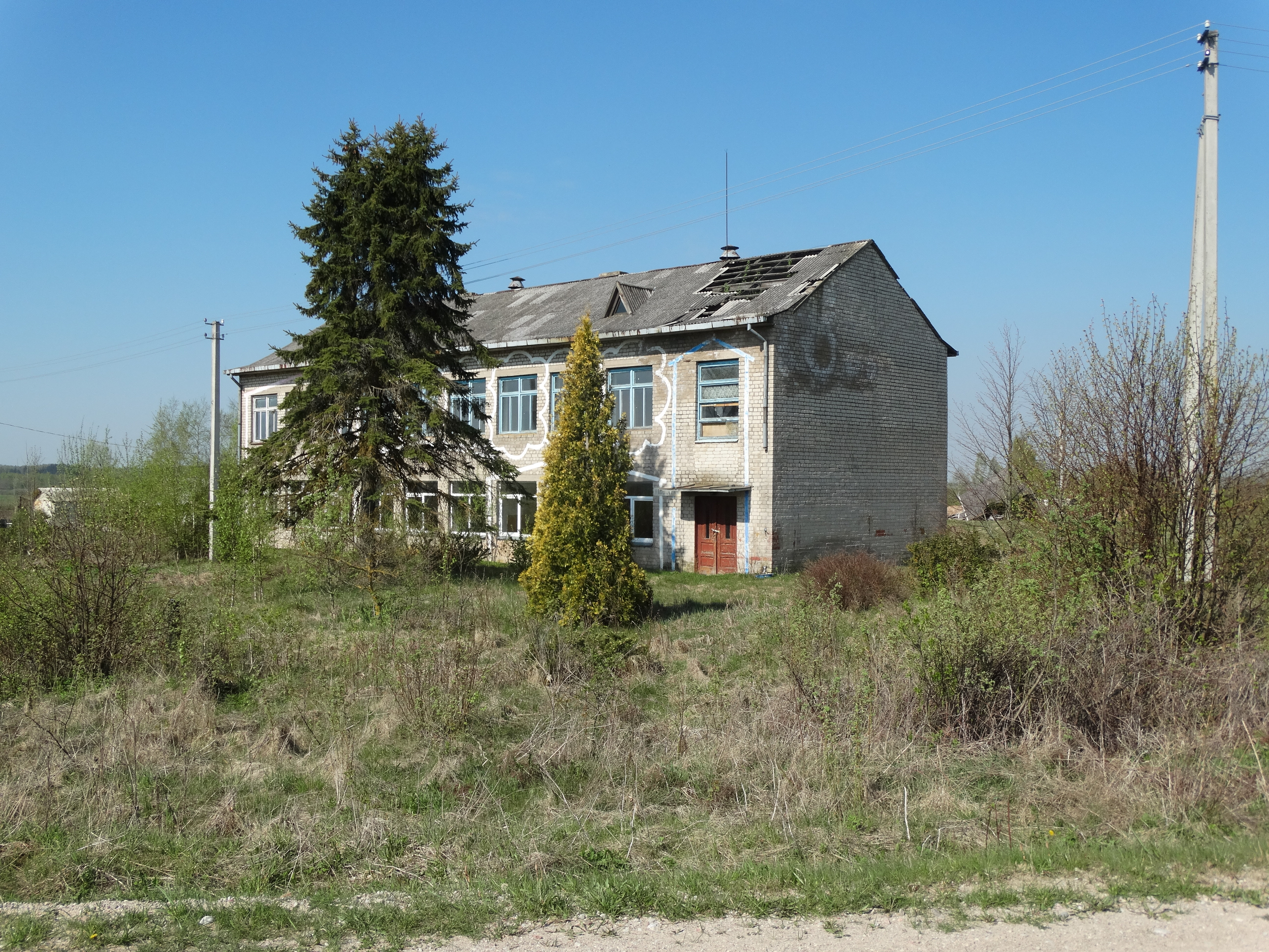 Savarinė, Kaišiadorys District, Lithuania